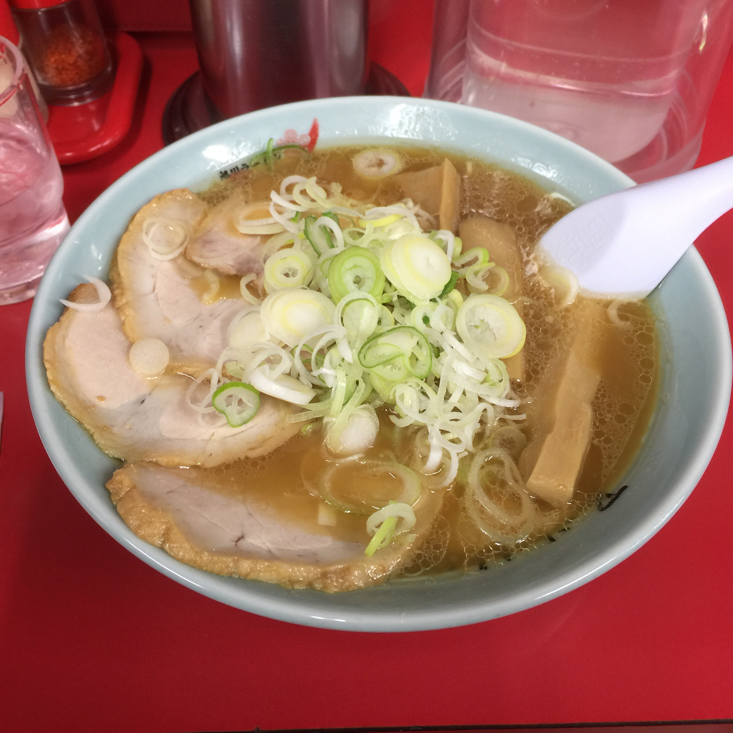 Char Siu Shoyu Ramen in Baikohken, Asahikawa